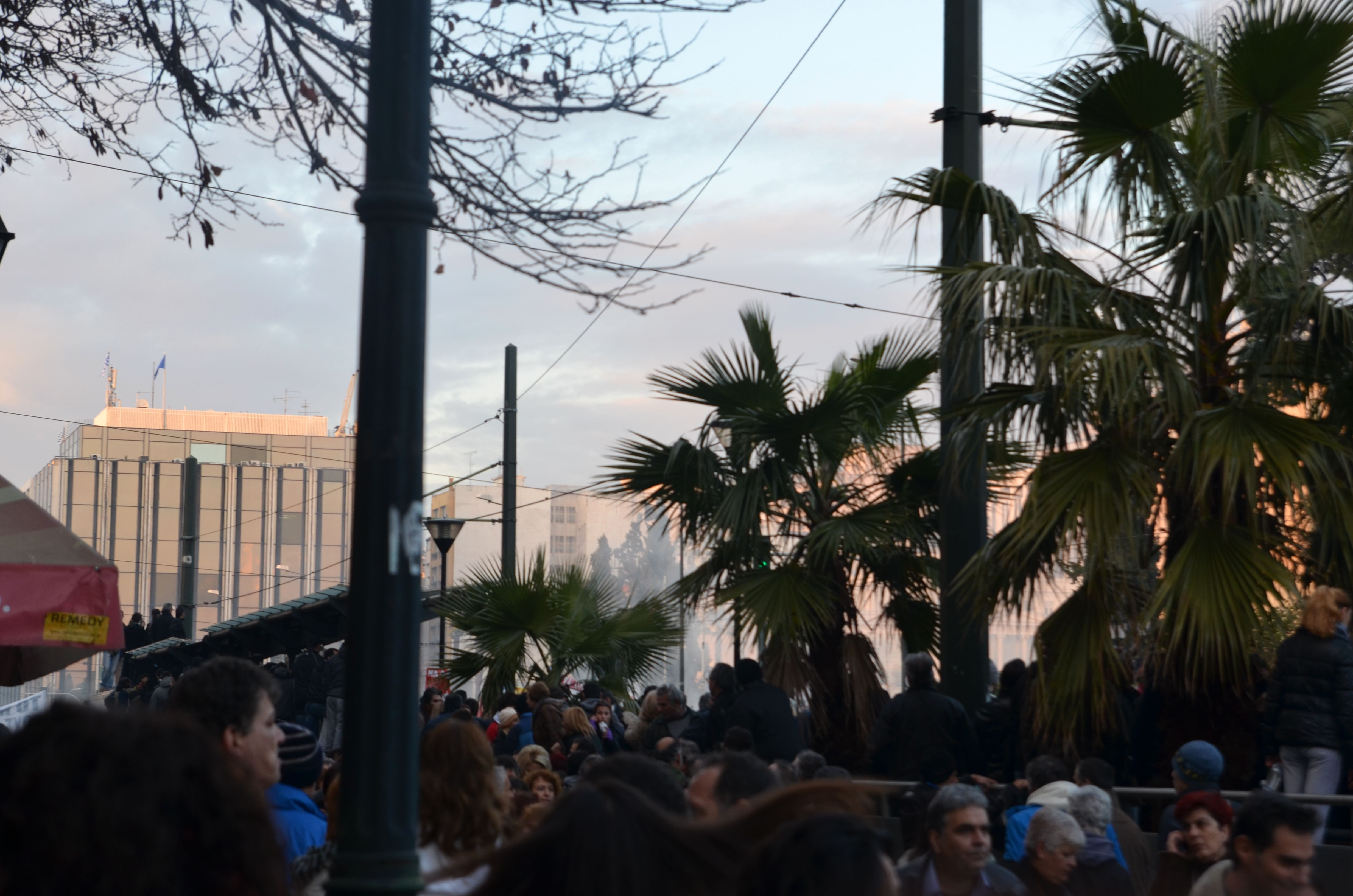 Riot police fire lacrymogen gaz in an about 60,000 people (after police) pacific crowd, Sunday february 12, around 17:40 (camera was on Paris timezone, but with one hour in advance), in front of parlment, on Syntagma place, in Athena, Greece, few hours before Mordorandum II voting.